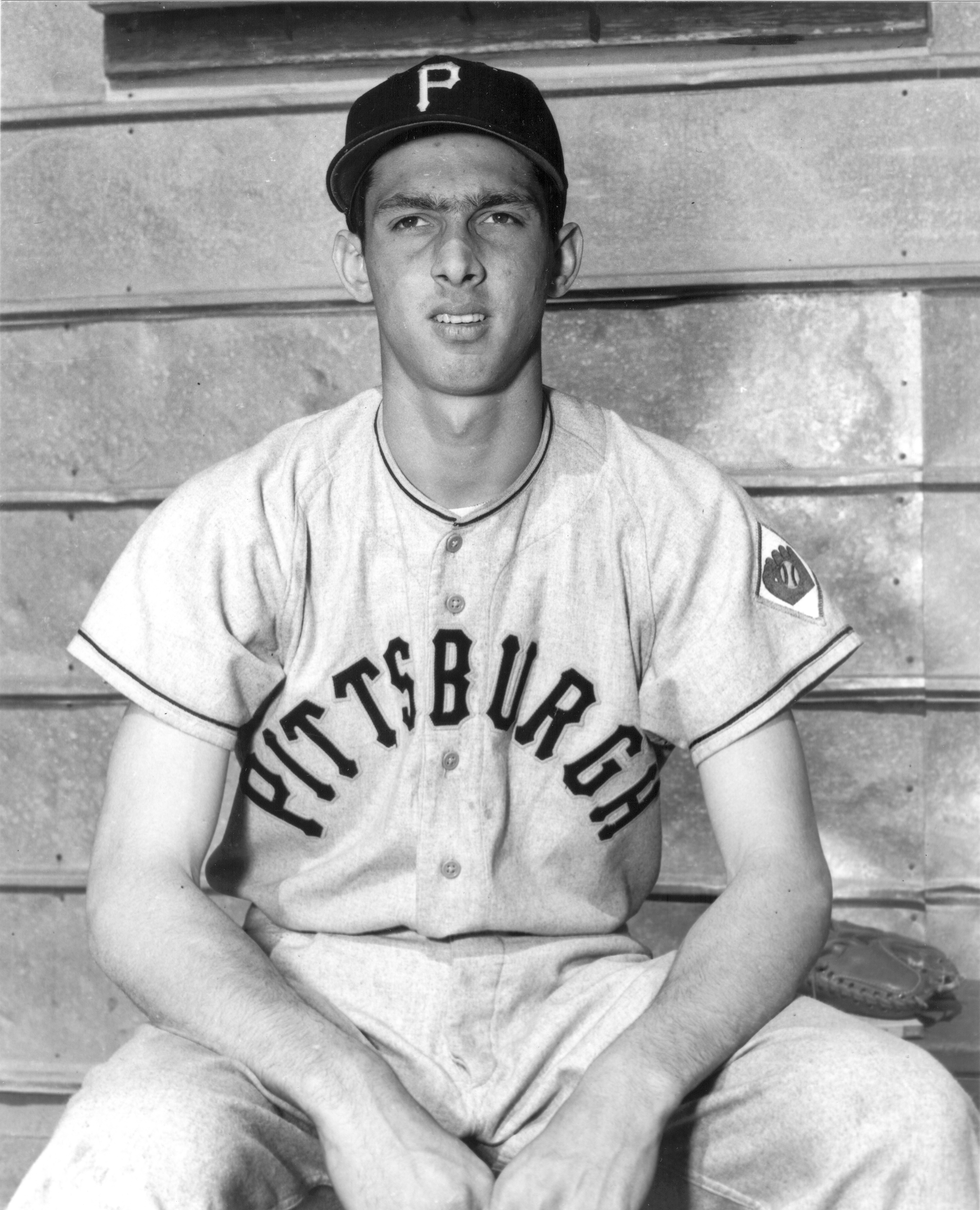 Ron Necciai as a Pirate